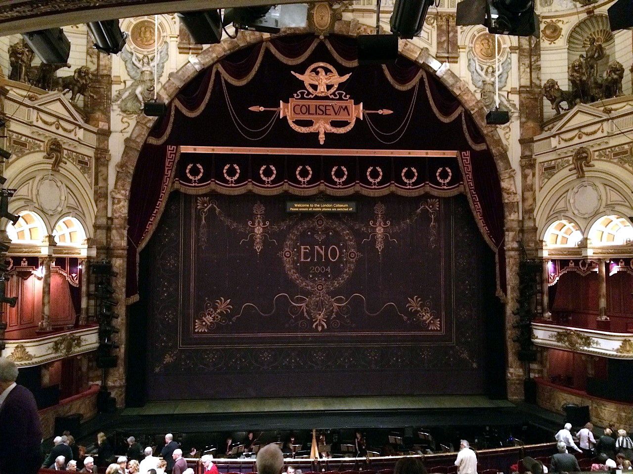 London, England. Interior view of the London Coliseum during the intermission of the ENO production of The Mastersingers of Nurnberg on March 3rd, 2015.